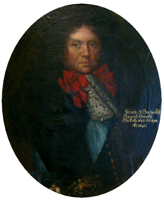 Gosche von Buchwaldt(1624-1700)